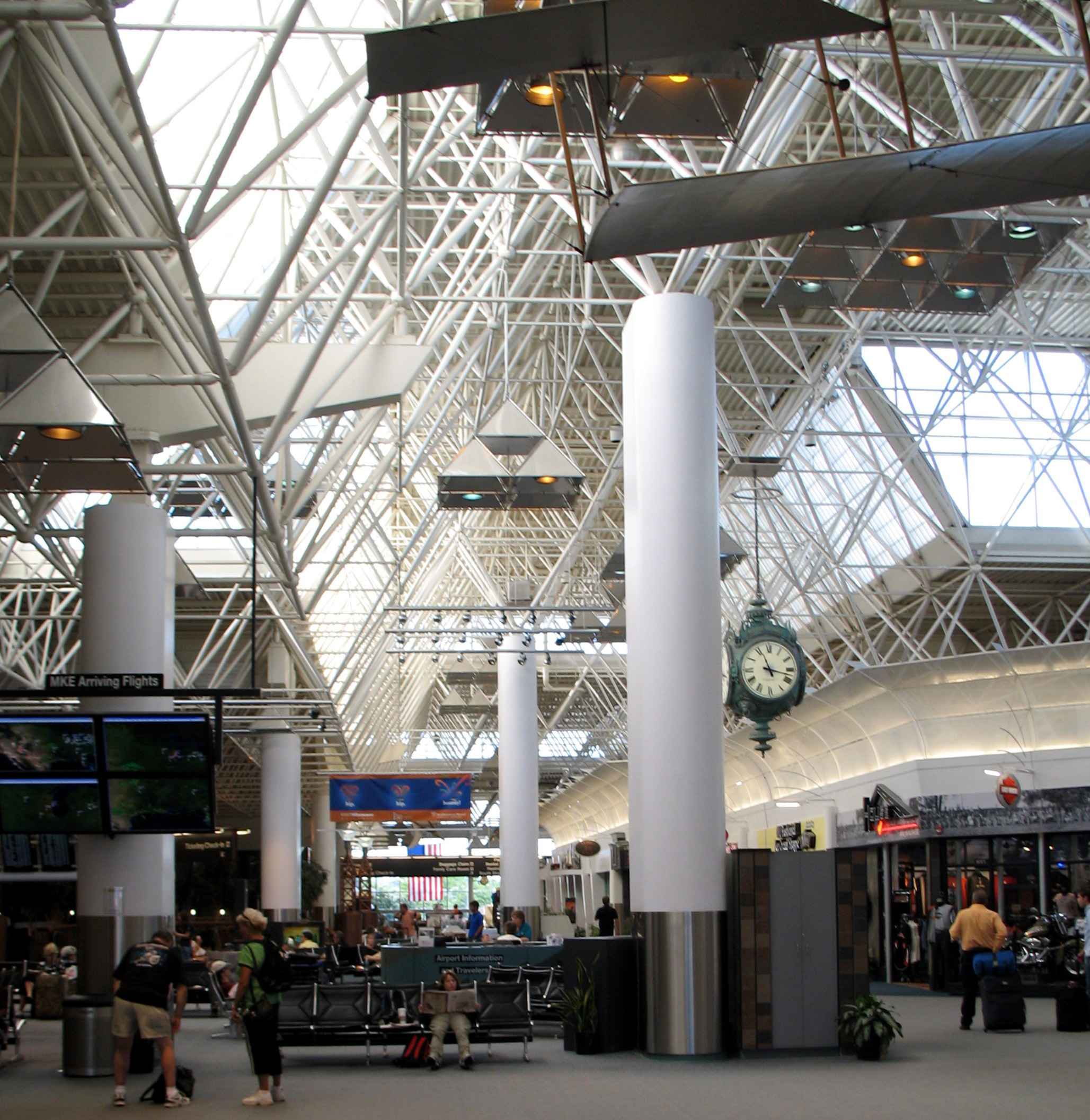 General Mitchell International Airport main terminal in Milwaukee, Wisconsin, USA.